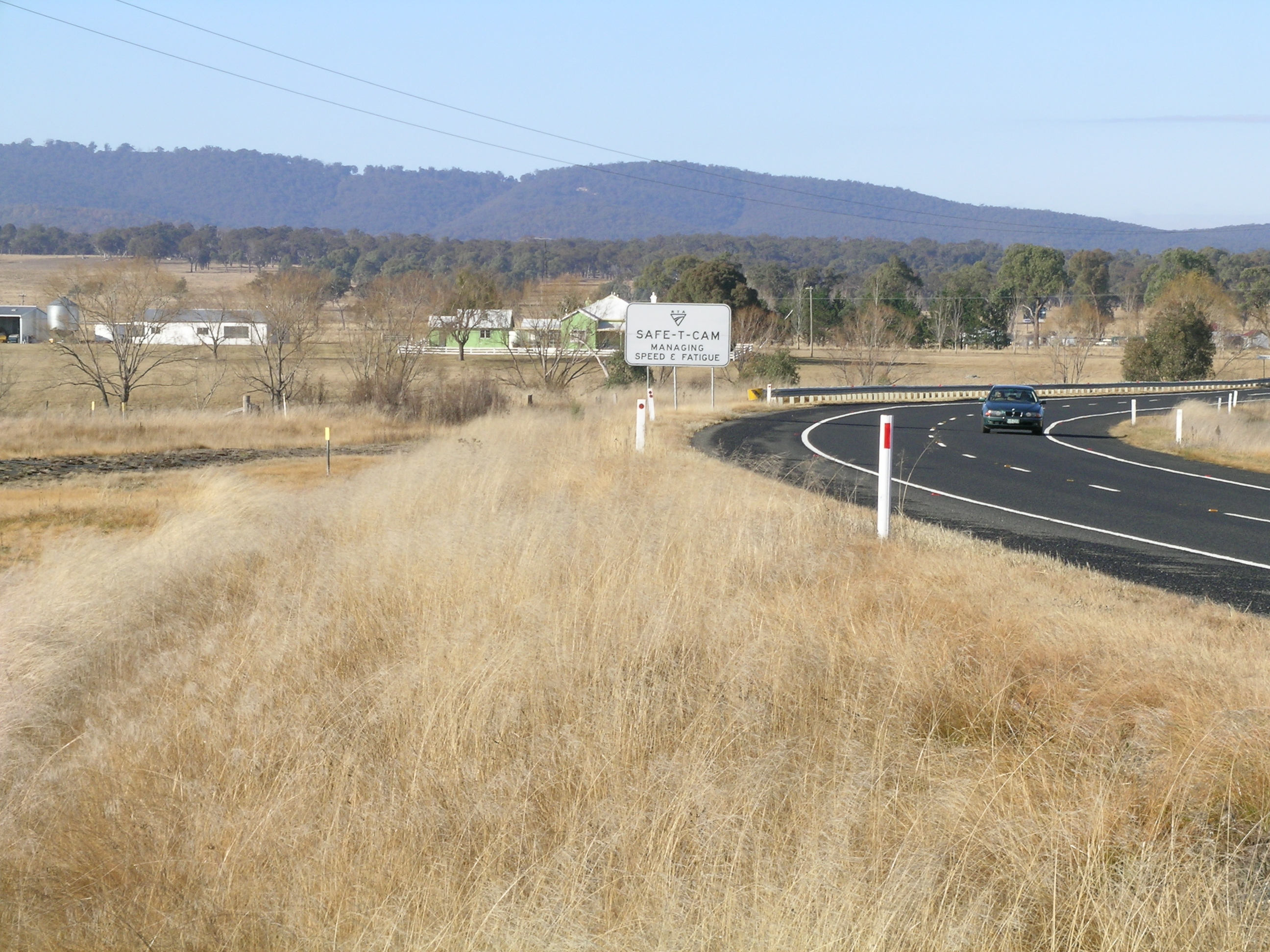 Approaching the Severn River bridge, New England Highway, Dundee, NSW